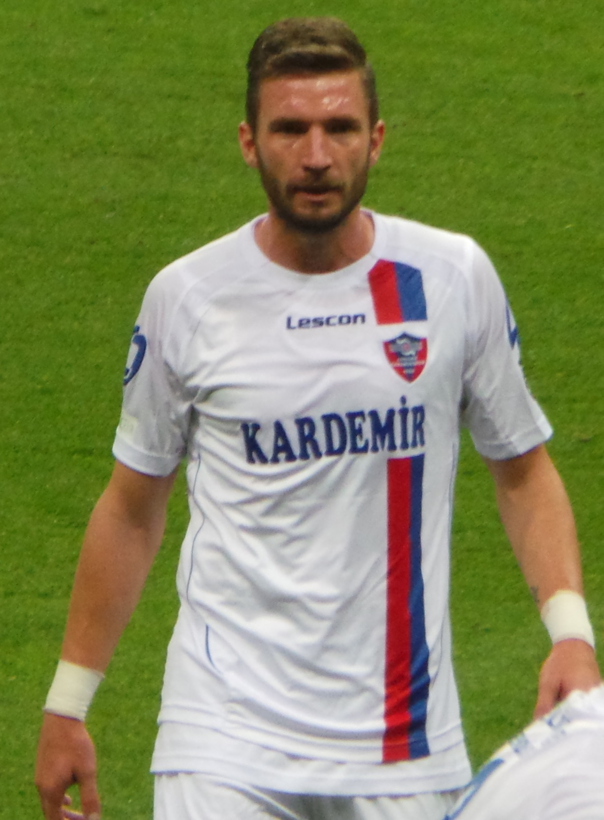 Yiğit against G.S.